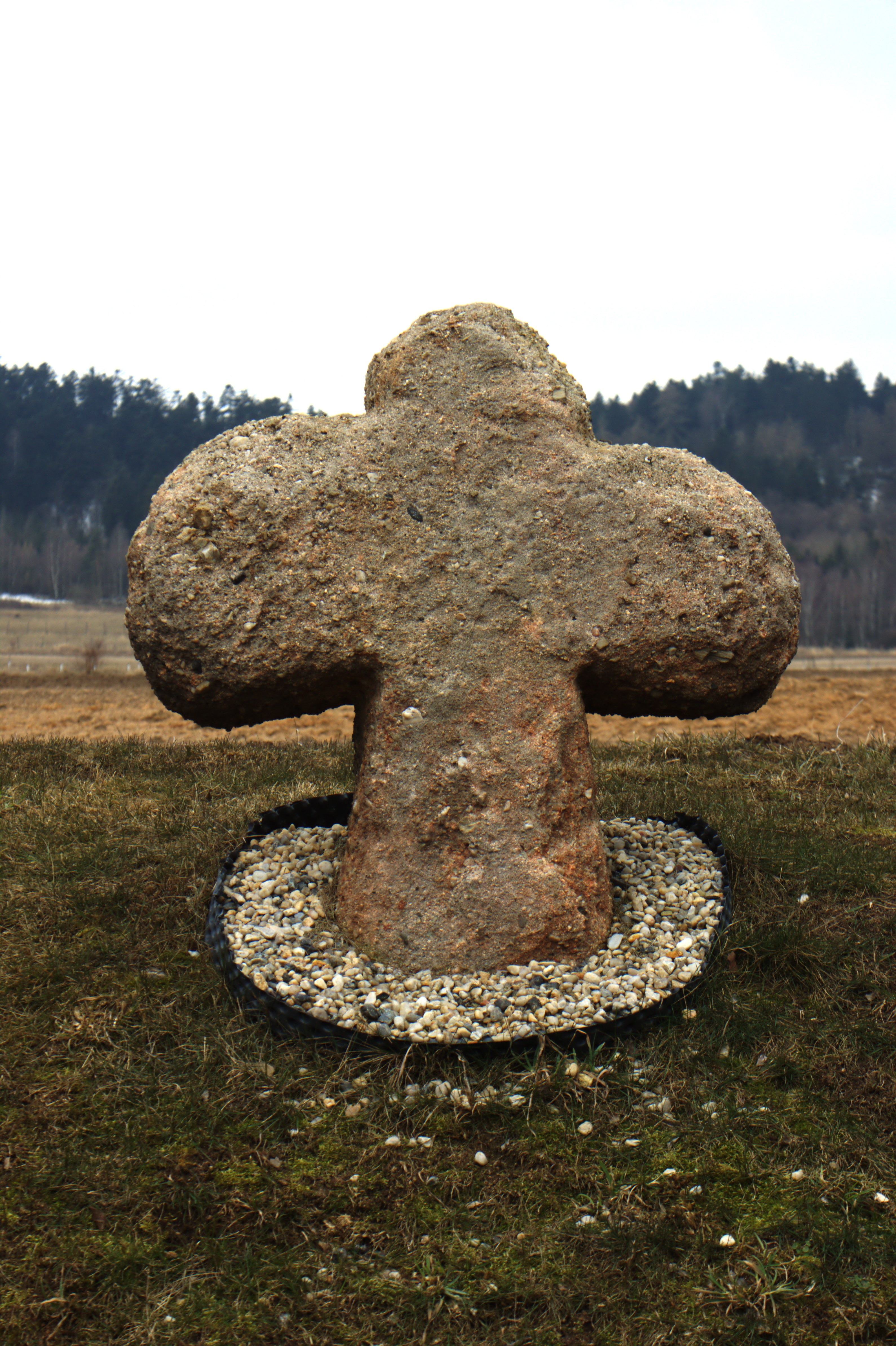 A cross in the southern part of the town of Václavy, Central Bohemian Region, CZ